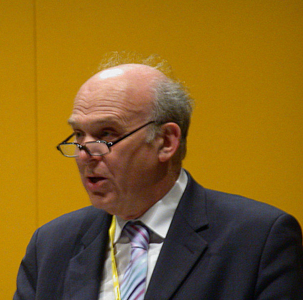 Vince Cable MP addressing a Liberal Democrat conference in the ACC, Liverpool